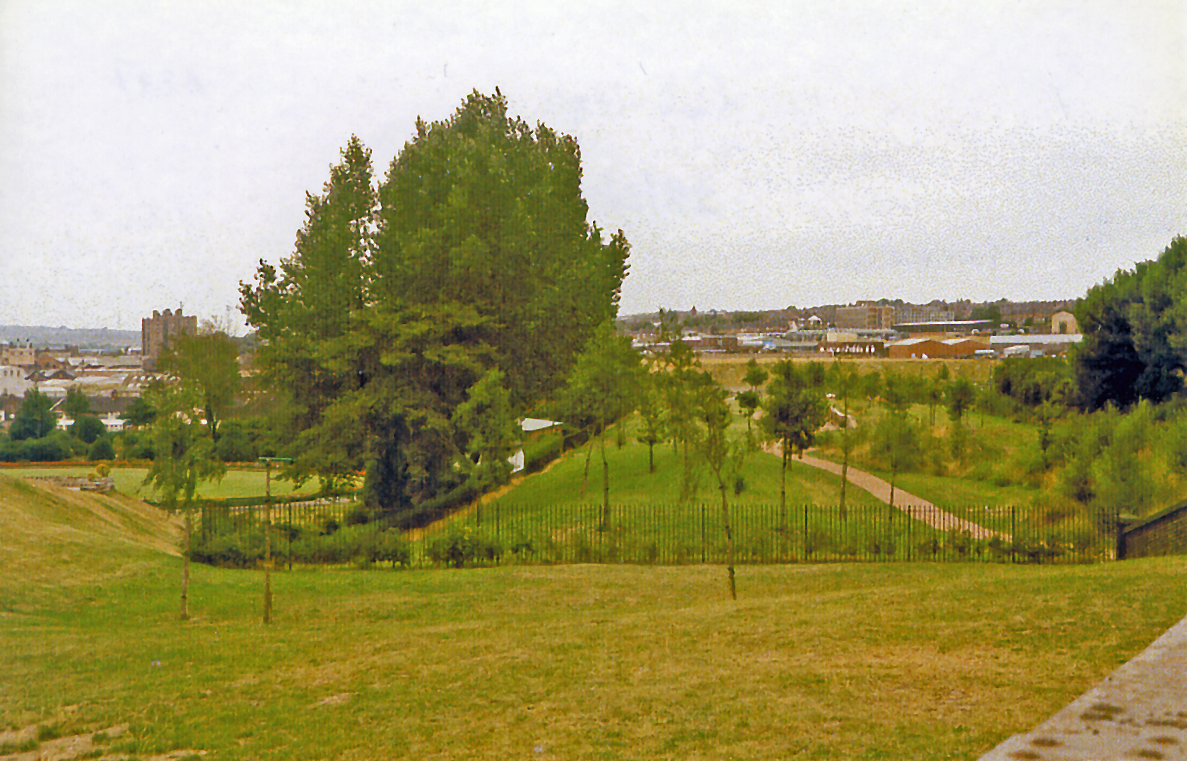 Site of Cobridge station. View northward, towards Tunstall and Kidsgrove: North Staffordshire Railway 'Potteries Loop' (Etruria - Hanley - Tunstall - Kidsgrove Junction), closed to passengers 2/3/64, goods 3/1/66.